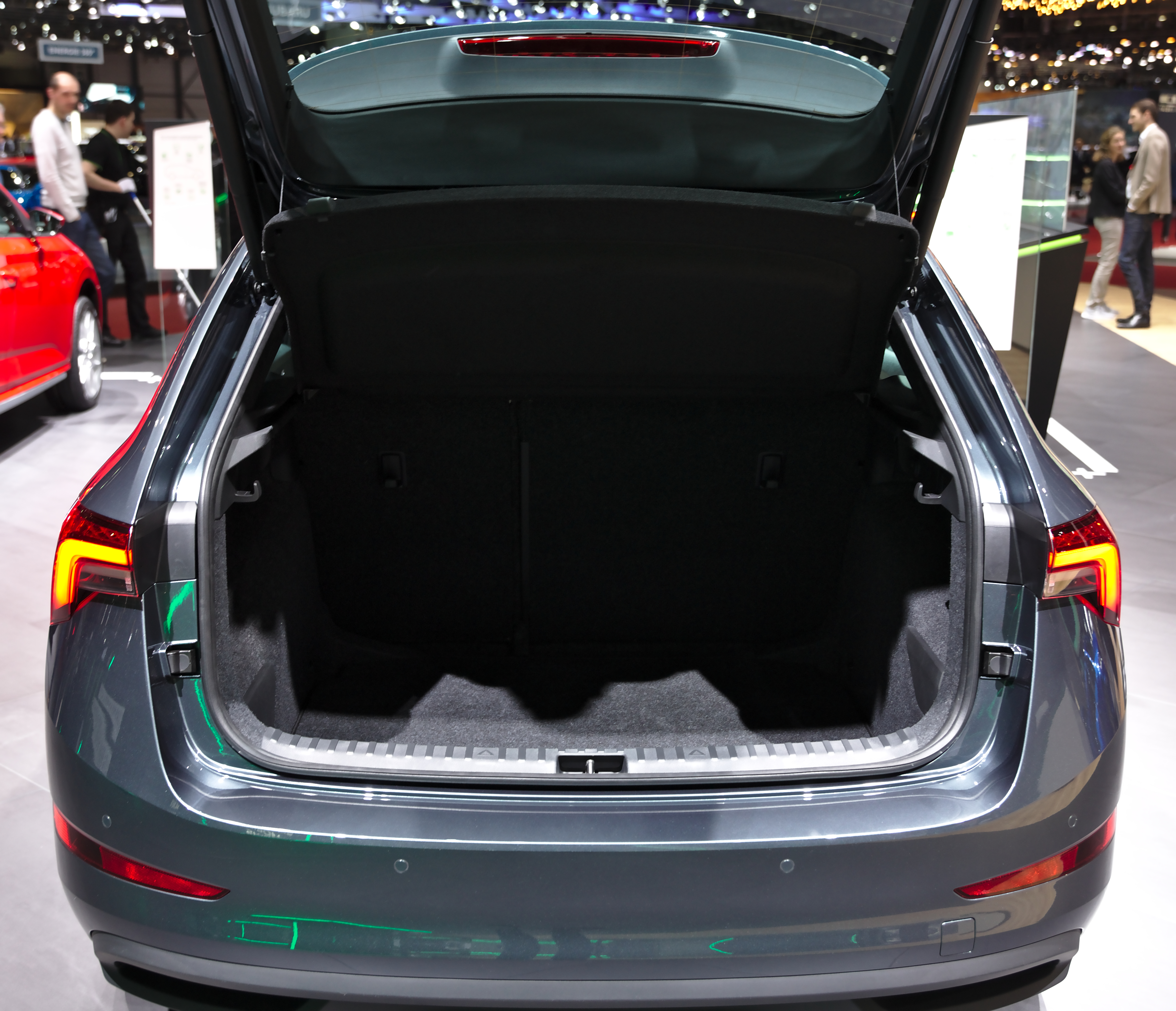 Škoda Scala at Geneva Motor Show 2019